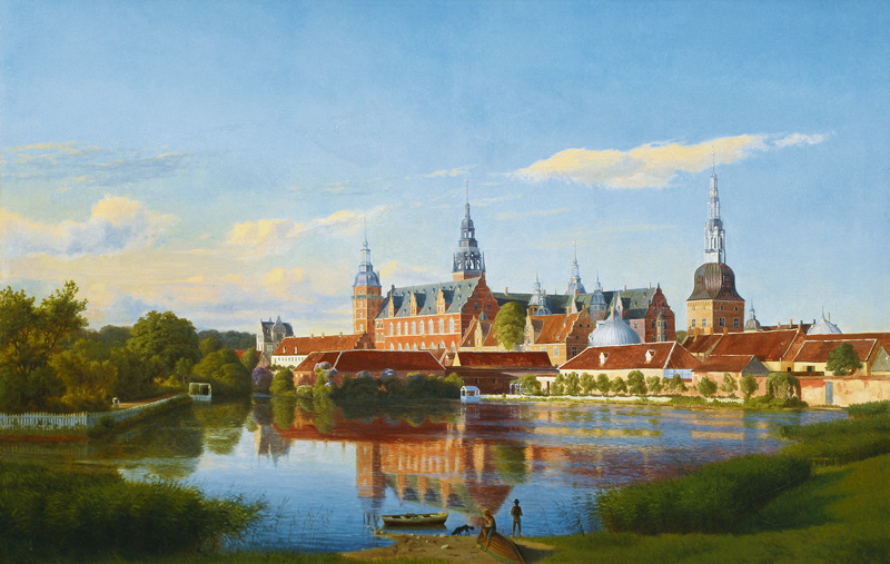 Frederiksborg Castle. Oil on canvas, 66x94 cm.